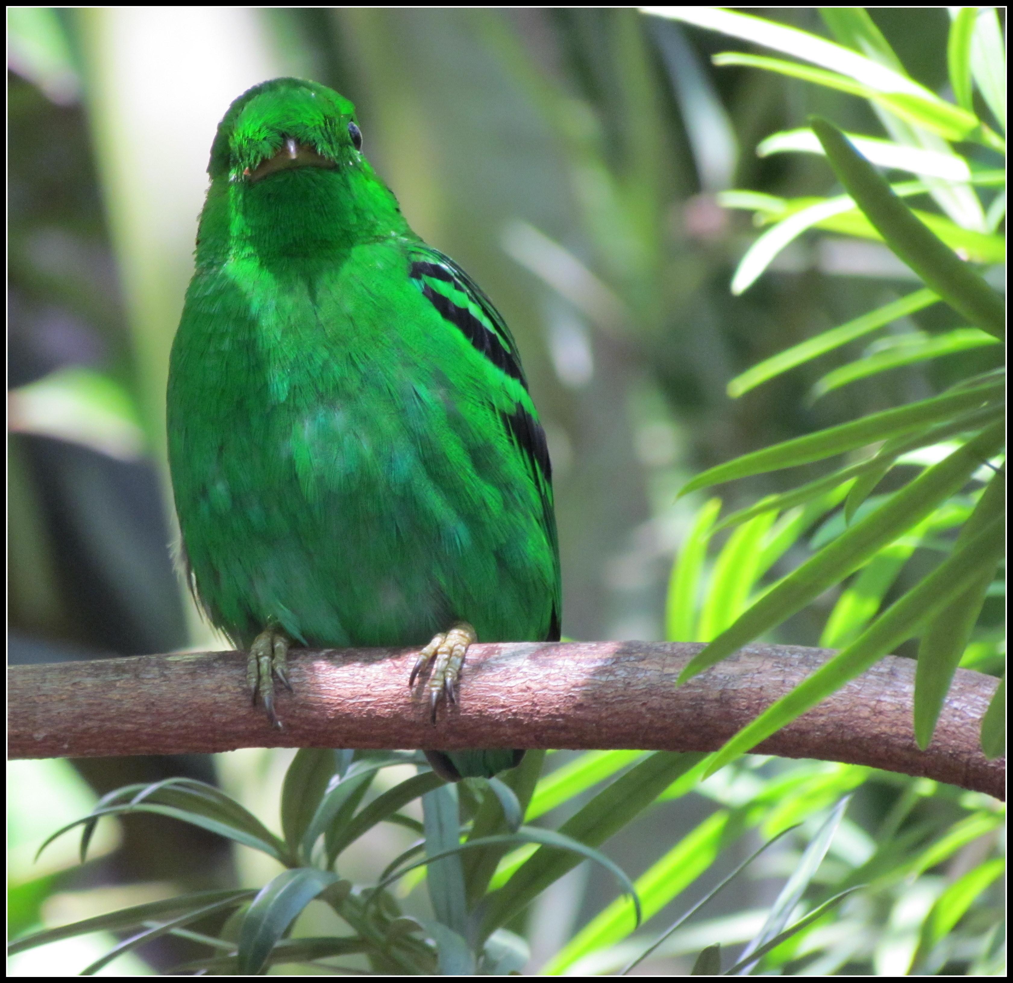 FIELD MARKS-The lesser green broadbill can be identified by its vibrant green plumage. The species is sexually dimorphic, meaning males and females differ in appearance. Males possess a black dot behind each ear as well as black bands across the wings, while females have duller green feathers and lack any black markings.--Range Malaysia and Sumatra--Status Near threatened due to habitat loss